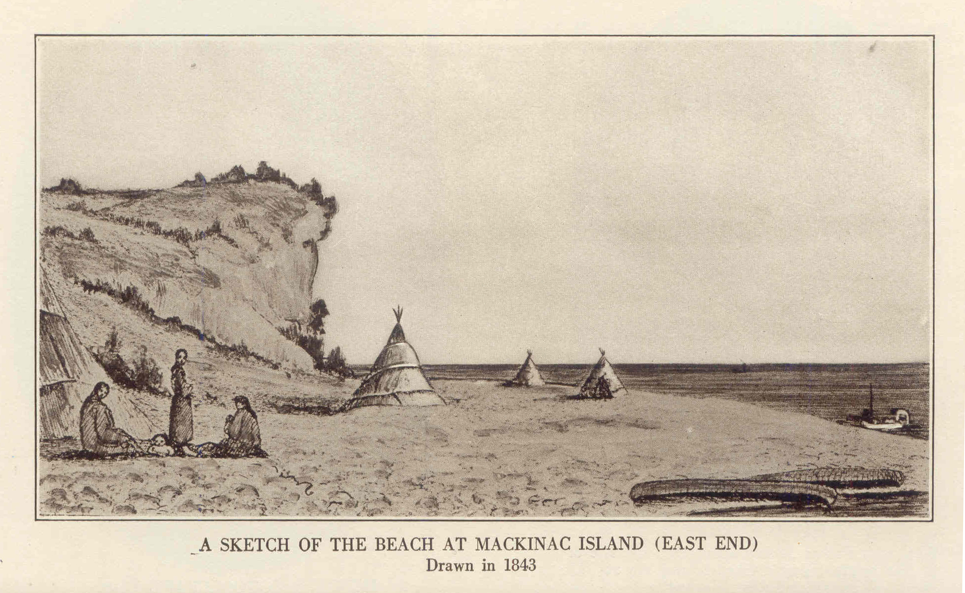 This drawing of Mission Point, Mackinac Island was created in 1843. It was published by Edwin O. Wood. 1918. Historic Mackinac, Volume 1 (of 2), facing-page 367. The Macmillan Company: New York. Drawing title is "A Sketch of the Beach at Mackinac Island (East End) Drawn in 1843." It looks eastward across shoreline, tepees, canoes, and natives, showing Robinson's Folly cliff in the background.